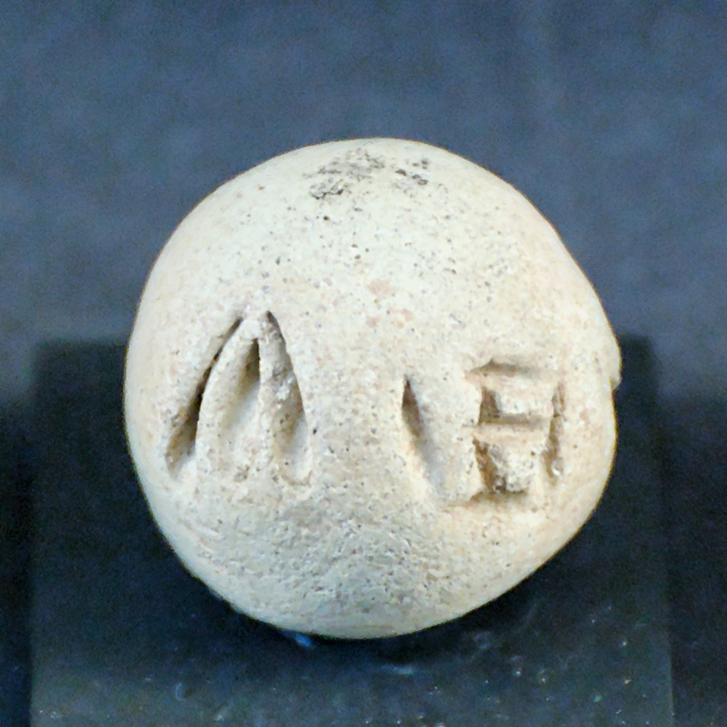 Provenance: Enkomi, Republic of Cyprus